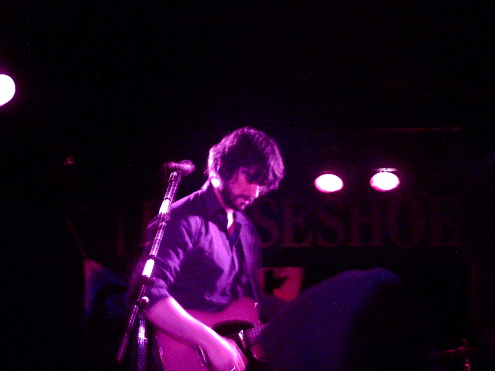 Peter Elkas performing at the Horseshoe Tavern in Toronto, Ontario, Canada, 9 March 2007.